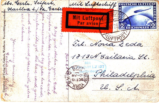 Flown ppc carried on the first North American flight of the "Graf Zeppelin" October 11-15, 1928 Source: The Cooper Collection of Zeppelin Postal History (the Image uploader's collection) Photograph by uploader.